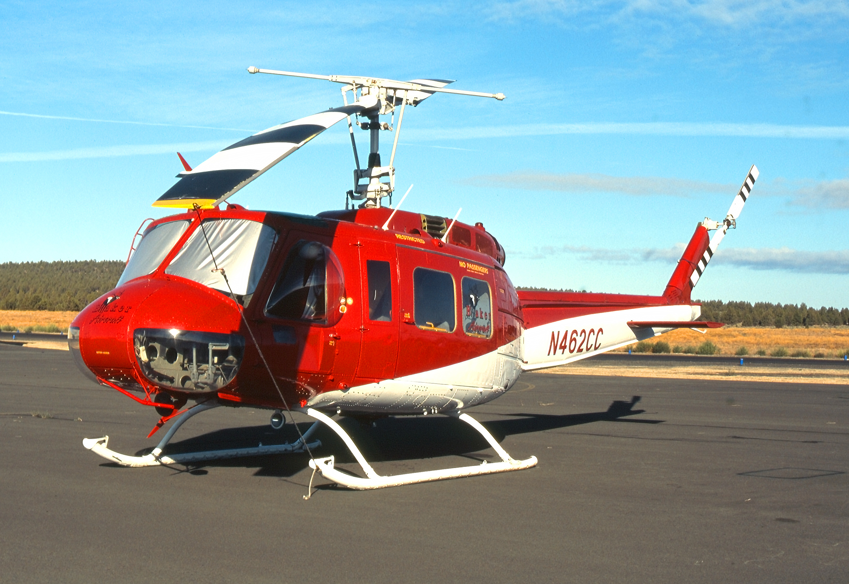 New to US Army s/n 65-9666. Saw duty in Vietnam as Razorback Attack Helicopter UH-1D Iroquois/Huey. Here at the Prineville Municipal Airport (S39), Oregon.